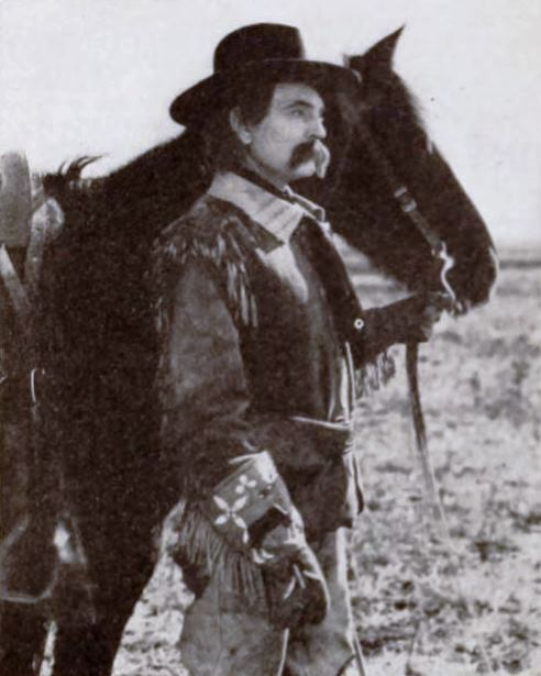 Still from the American silent western film Bob Hampton of Placer (1921) with T. D. Crittenden as General Custer, on page 82 of the March 5, 1921 Exhibitors Herald.